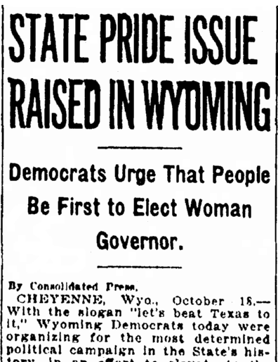 "State pride issue raised in Wyoming", headline of journal Evening Star.